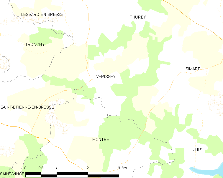 Map of French municipality